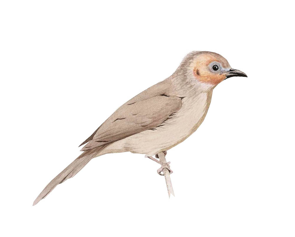 Watercolor of a Bare-faced Bulbul